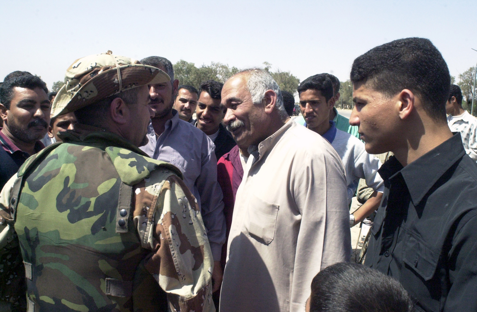 Umm Qasr, Iraq (Mar. 28, 2003) -- A member of the Free Iraqi Forces (FIF) is reunited with family members in his home village. Free Iraqi Forces are Shiia and Sunni Muslims, Arabs and Kurds, all exiled from Iraq who are committed to democracy and securing peace in their homeland. The soldiers wear battle-dress uniforms with “FIF” patches on the shoulder and assist U.S. and Coalition forces in civil-military operations. This FIF soldier is an American citizen who volunteered to help the Coalition to free Iraq and has not seen his family in over ten years. U.S. Army photo courtesy of Spec. Tyler Long. (RELEASED)